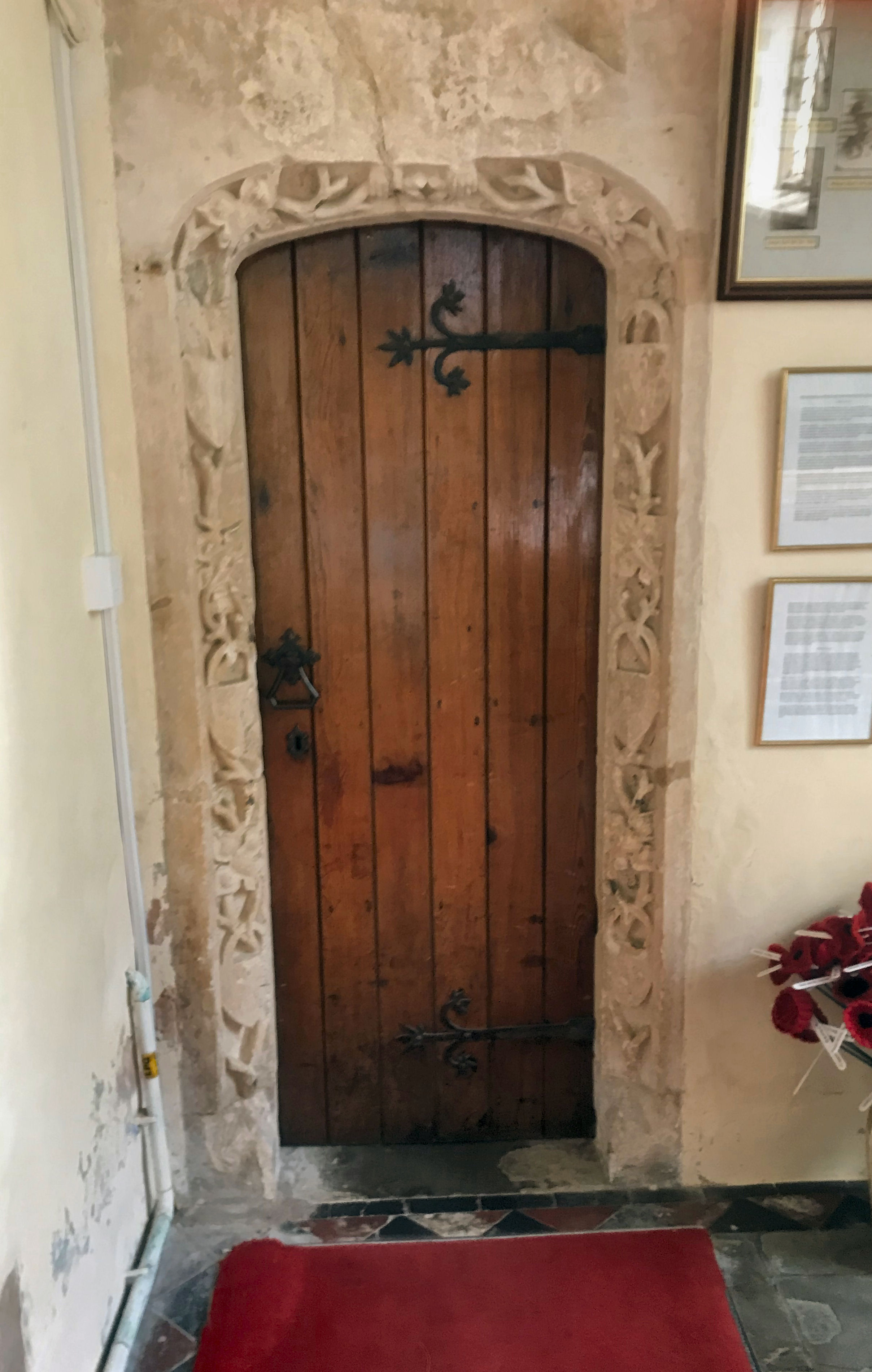 The 16th-century moulded stone priest's door carved with decoration of leaves, branches and shields in the church of St Mary and St Benedict in Buckland Brewer was deliberately damaged during the English Civil War